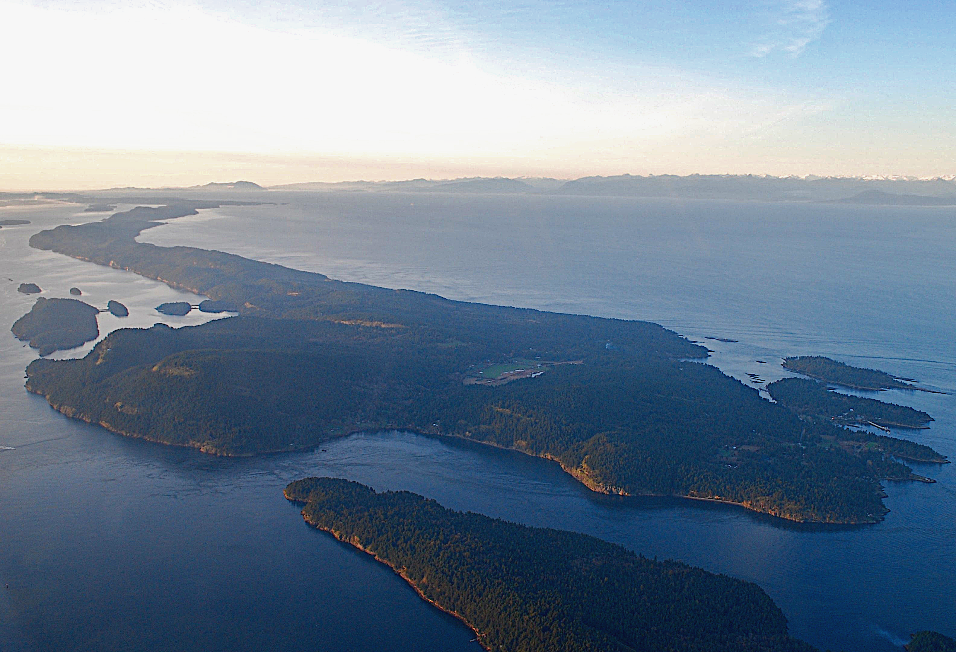 Aerial photo of Galiano Island and the Salish Sea facing Northwest. Taken in 2015.